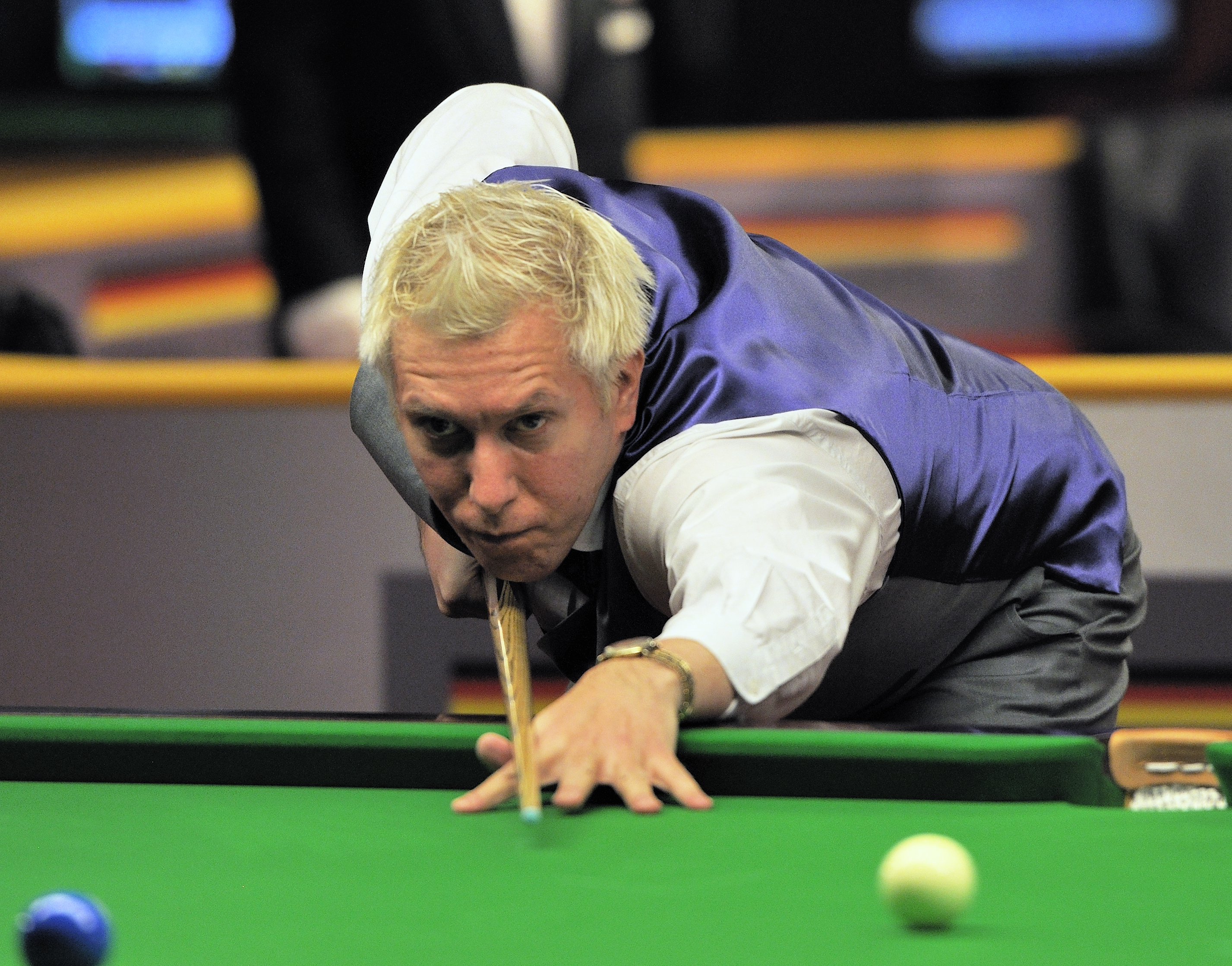 Picture taken in Berlin during the Snooker German Masters in 2014. Dominic Dale.